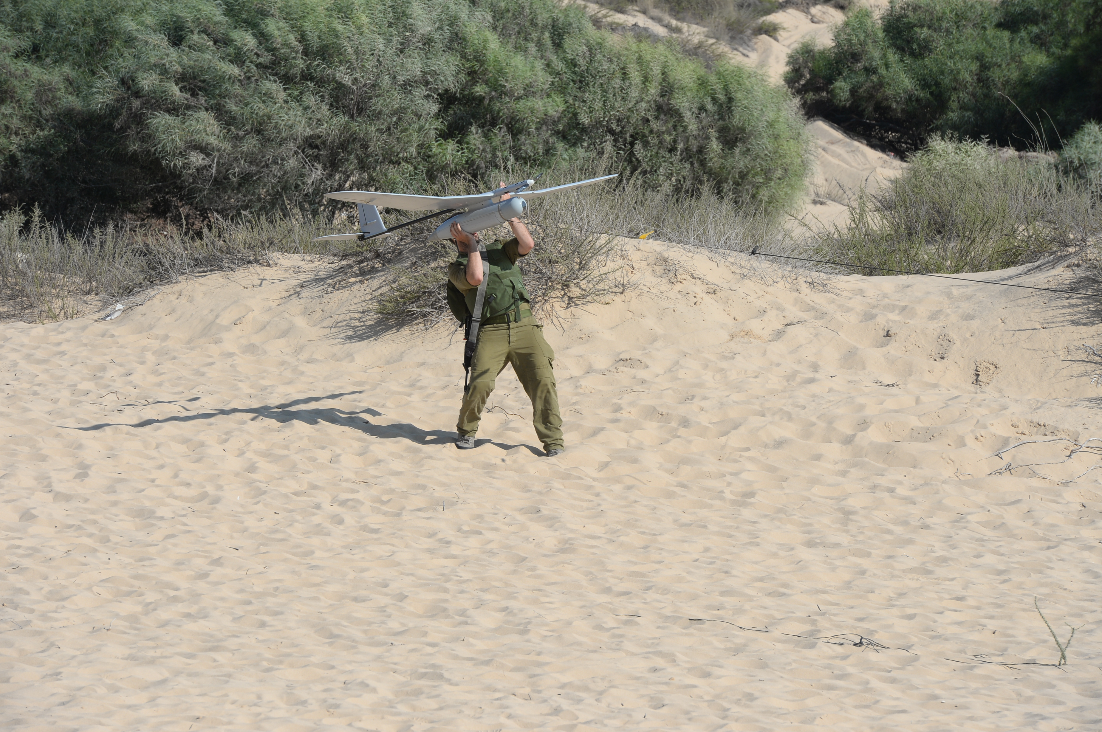 The IDF's elite Skylark unit, nicknamed the "Sky Riders," are the eyes of Operation Protective Edge. Since the beginning of the operation, the Sky Riders have provided footage of the events in Gaza.